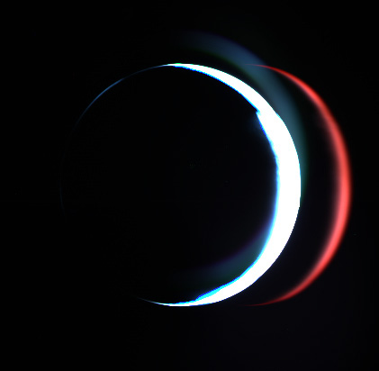 A thin crescent Mars (white) captured by Rosetta’s OSIRIS (Optical, Spectrocopic and Infrared Remote Imaging System) instrument in February 2007 during its long journey to comet Churyumov-Gerasimenko. Nightglow in the planet’s atmosphere can be seen at the 11 o’clock position. The red and fuzzy blue haloes are a result of internal reflections within the camera’s optics. The images from the cruise phase and the flybys at Mars and Earth were recently released and are accessible to the public in ESA’s Planetary Science Archive and NASA’s Planetary Data System. See esa.int for more information